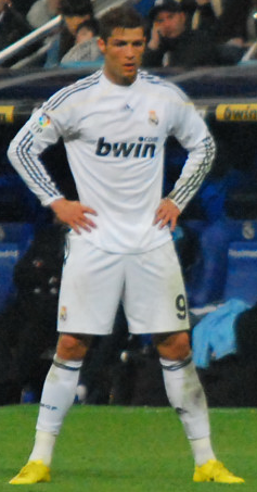 Cristiano Ronaldo preparing his freekick